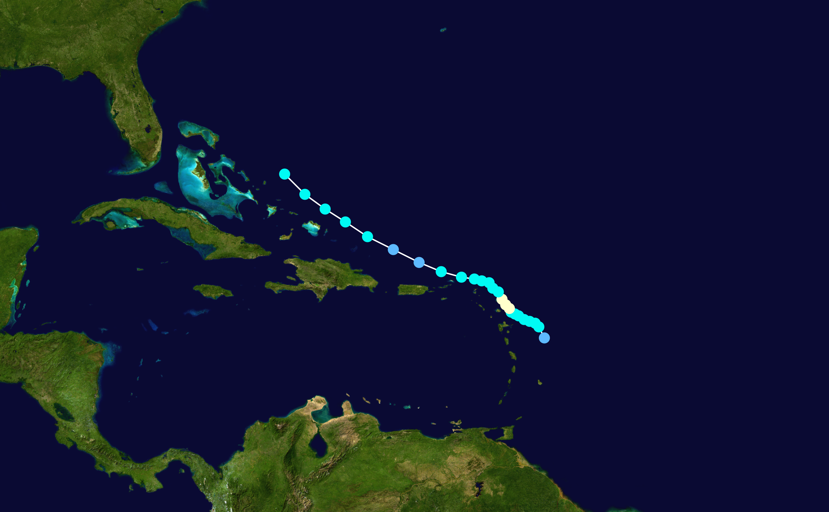 Track map of Hurricane Klaus of the 1990 Atlantic hurricane season. The points show the location of the storm at 6-hour intervals. The colour represents the storm's maximum sustained wind speeds as classified in the Saffir–Simpson scale (see below), and the shape of the data points represent the nature of the storm, according to the legend below. Saffir–Simpson scale Tropical depression≤38 mph≤62 km/h Category 3111–129 mph178–208 km/h Tropical storm39–73 mph63–118 km/h Category 4130–156 mph209–251 km/h Category 174–95 mph119–153 km/h Category 5≥157 mph≥252 km/h Category 296–110 mph154–177 km/h Unknown Storm type Tropical cyclone Subtropical cyclone Extratropical cyclone / Remnant low / Tropical disturbance / Monsoon depression